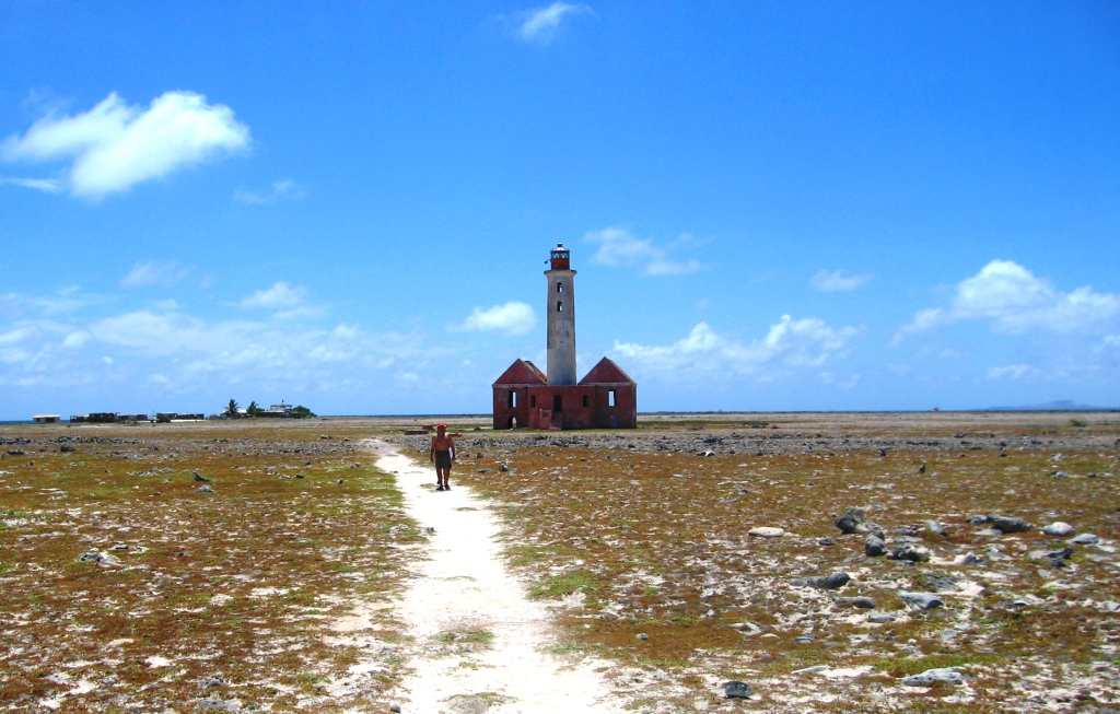 Foto taget 2005-08-28. Fyrtornet på Klein Curacao med Curacao vid horisonten på fotots högra sida This work has been released into the public domain by its author, Alex Flink at the Swedish Wikipedia project. This applies worldwide. In case this is not legally possible: Alex Flink grants anyone the right to use this work for any purpose, without any conditions, unless such conditions are required by law.